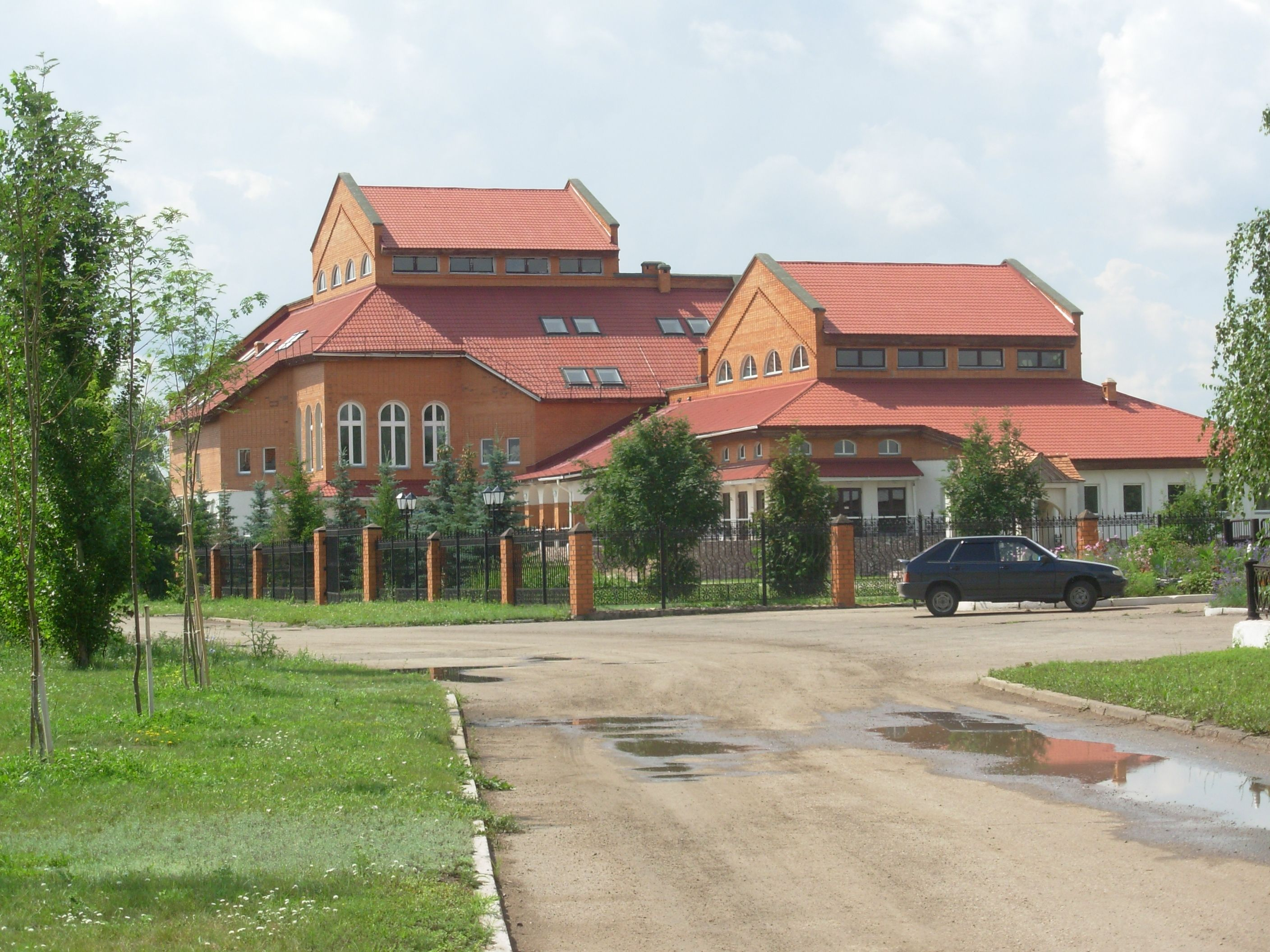 Village Jelannyi